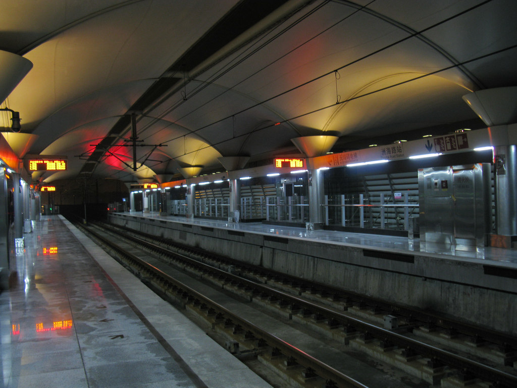 Line 6 Platform of Zhouhai Road Station